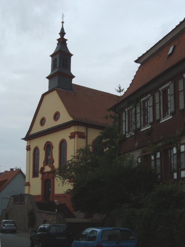 Church in Hemsbach